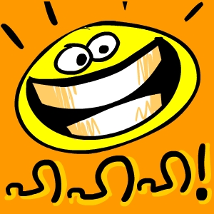 Laugh!!!